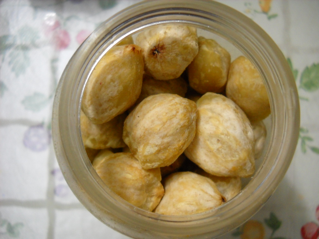 Kemiri Nuts or Aleurites moluccana, Indonesia.